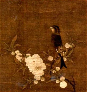 Peach Blossoms with Small Bird, Sunritz Hattori Museum of Arts, Suwa, Nagano, Japan